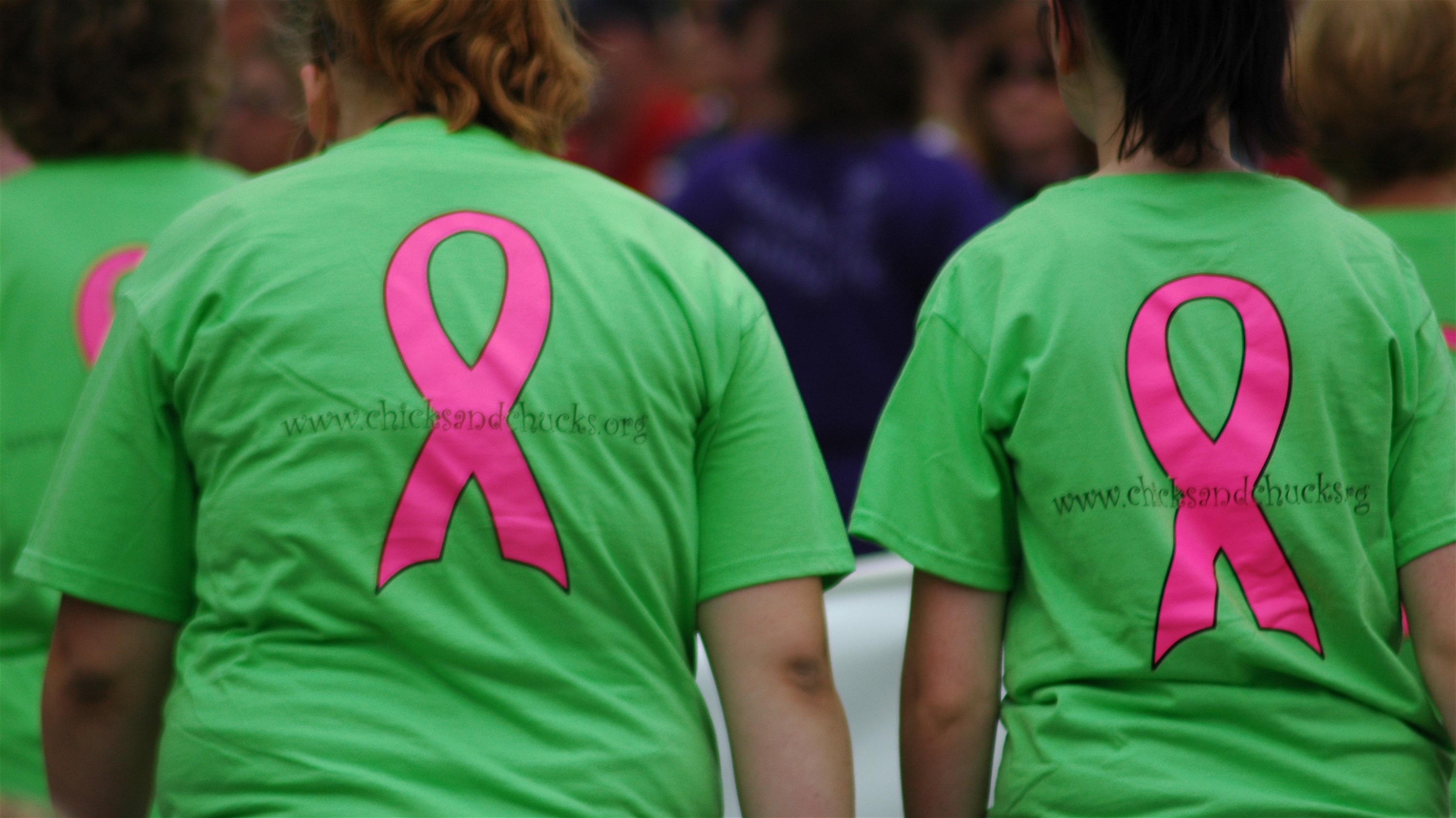 Fourth of July Parade